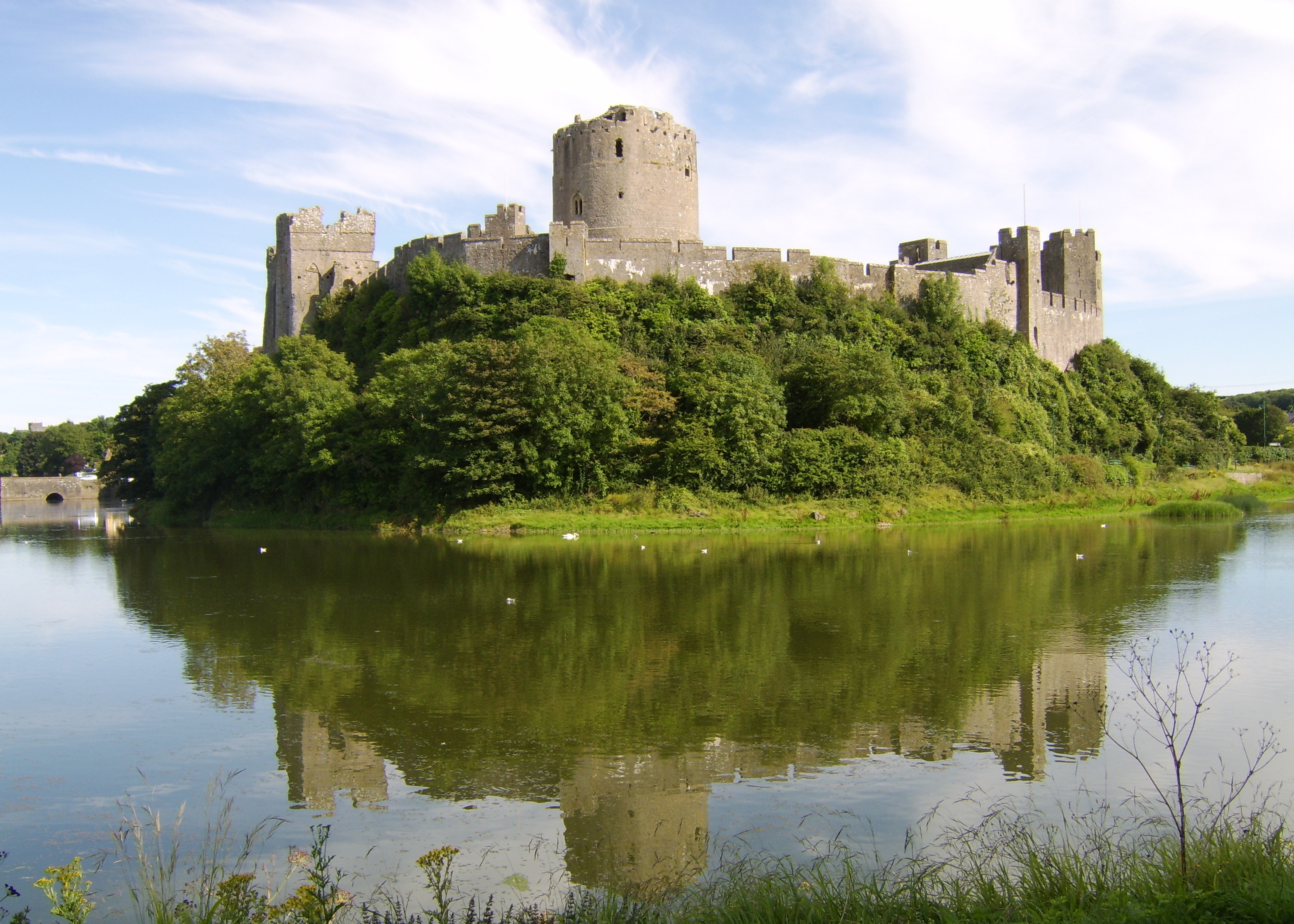 Saw that my photo under CC license has been added here; And here; Located in the centre of Pembroke town (not to be confused with Pembroke Dock a few miles away) this magnificent castle was once the home of Henry Tudor as well as Strongbow, (Richard de Clare, Earl of Pembroke) and his son-in-law, William Marshall. Built beside the river Cleddau, it occupies a splendid elevated spot and is surrounded on one half by water. Thanks to flambard - for telling me that Henry (Tudor) VII was born in the gatehouse tower! View On Black